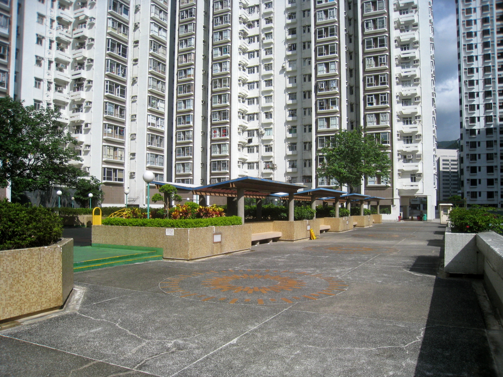 Shatin Centre L4 Podium